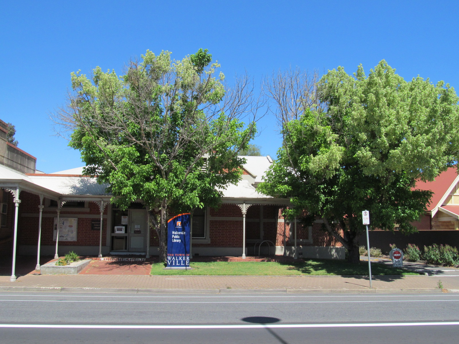 Walkerville Library (since demolished) as seen in November 2012 in Walkerville Terrace, Gilberton.